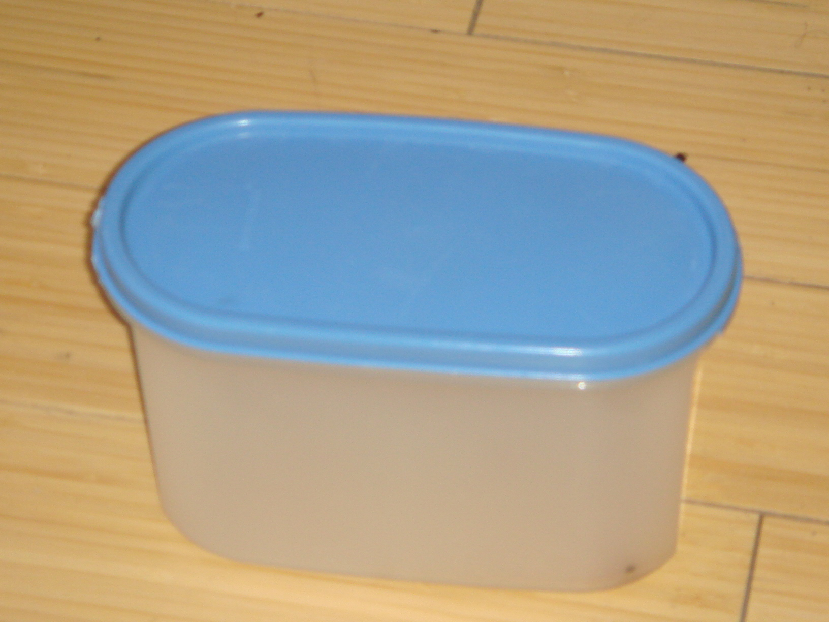 A Small tupperware container.